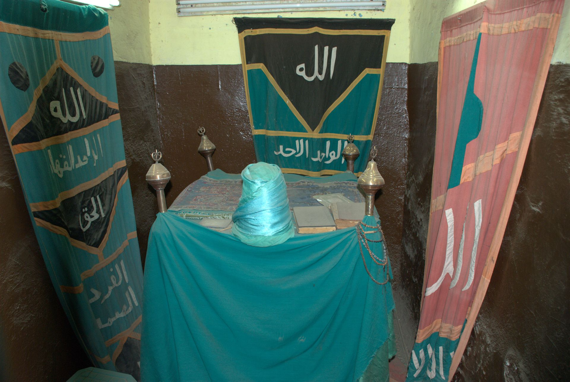 Cairo, small grave in old town